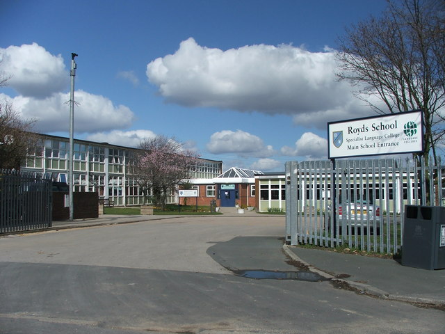 Royds School. Specialist language school near Rothwell.